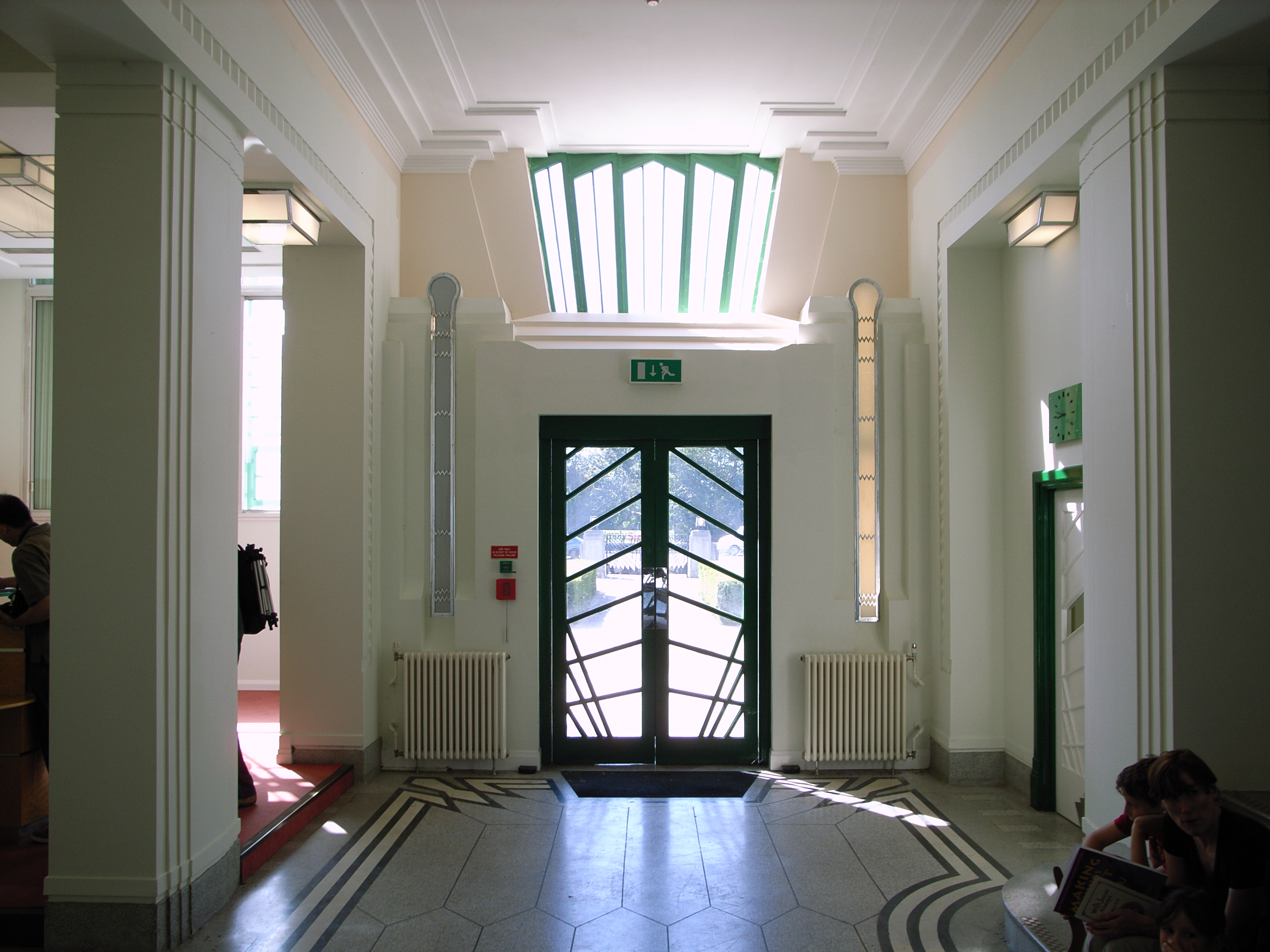 The Hoover Building (1931-1935) by Wallis Gilbert and Partners, Western Avenue, London.